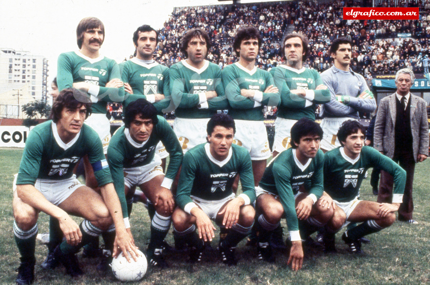 Team of Ferro C. Oeste that beat Quilmes 2-0 and crowned Primera División champions of the Nacional championship. Fltr: (stood): Carlos Arregui, Roberto M. Gómez, Oscar Garré, Héctor Cúper, Juan D. Rocchia, Eduardo Basigalup; (down): Gerónimo Saccardi, Miguel A. Juárez, Alberto Márcico, Adolfino Cañete, Claudio Crocco.